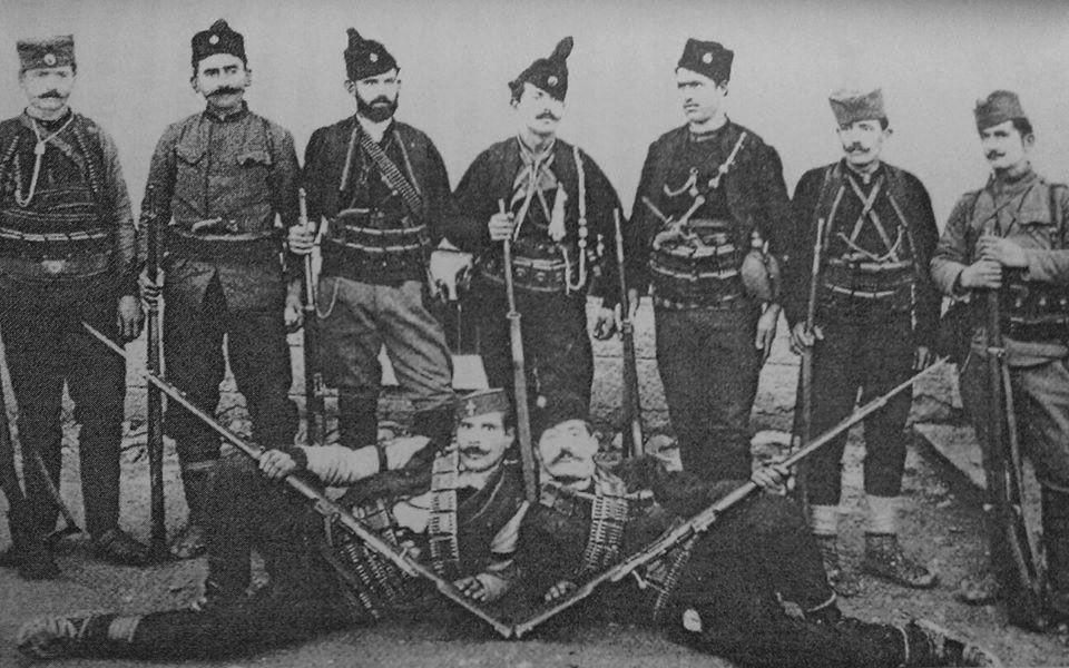 Cheta (band) of vojvoda Ilija Trifunović-Birčanin, 1907